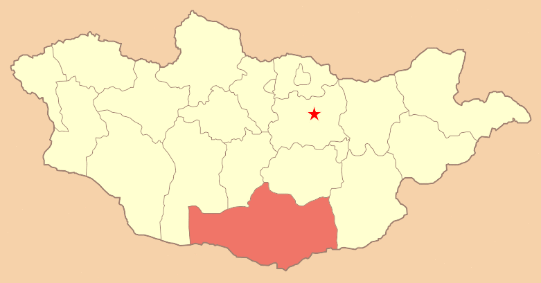 Map of Mongolia with Umnugobi Aimag highlighted.